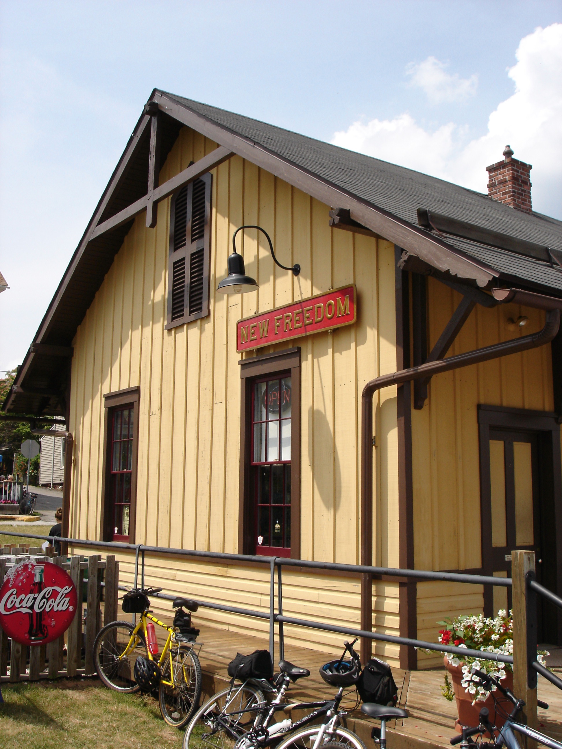 New Freedom, PA former PRR Station, now a restaurant- the New Freedom Rail Trail Cafe, and museum on the York County Heritage Rail Trail County Park. The cafe is open Wednesday through Friday from 10-3, and Saturday and Sunday from 8-6, and serves made to order breakfast, sandwiches, wraps, and salads, using locally sourced ingredients. They are also known for their made in house baked goods.